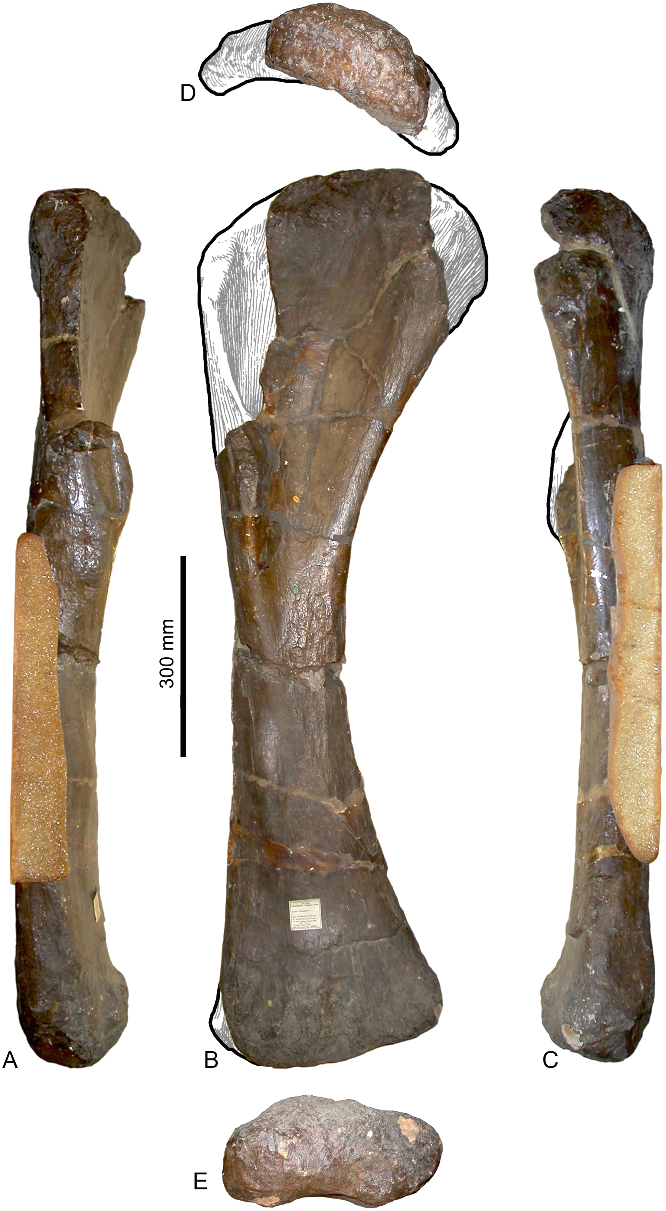 Right humerus of Pelorosaurus conybeari (NHMUK 28626). A, lateral; B, anterior; C, medial; D, proximal; E, distal views. Missing portions have been reconstructed using the humerus of Giraffatitan as a guide.